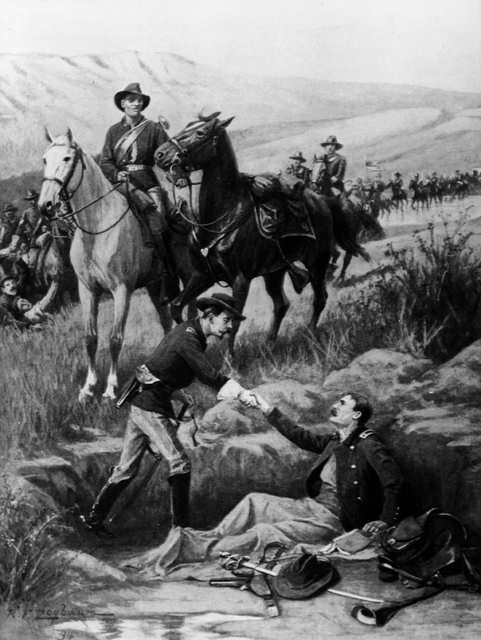 Bvt. Col. Louis H. Carpenter greeting Lt. Col. G. A. Forsyth, his wounded comrade, at the Battle of Beecher Island, Colorado, 25 September 1868. This battle was between the U. S. Cavalry and Native American Cheyenne. The picture is called The Rescue where a soldier greets his wounded comrade. The article from which this sketch comes from describes the two officers represented.